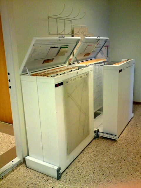 Map cabinette